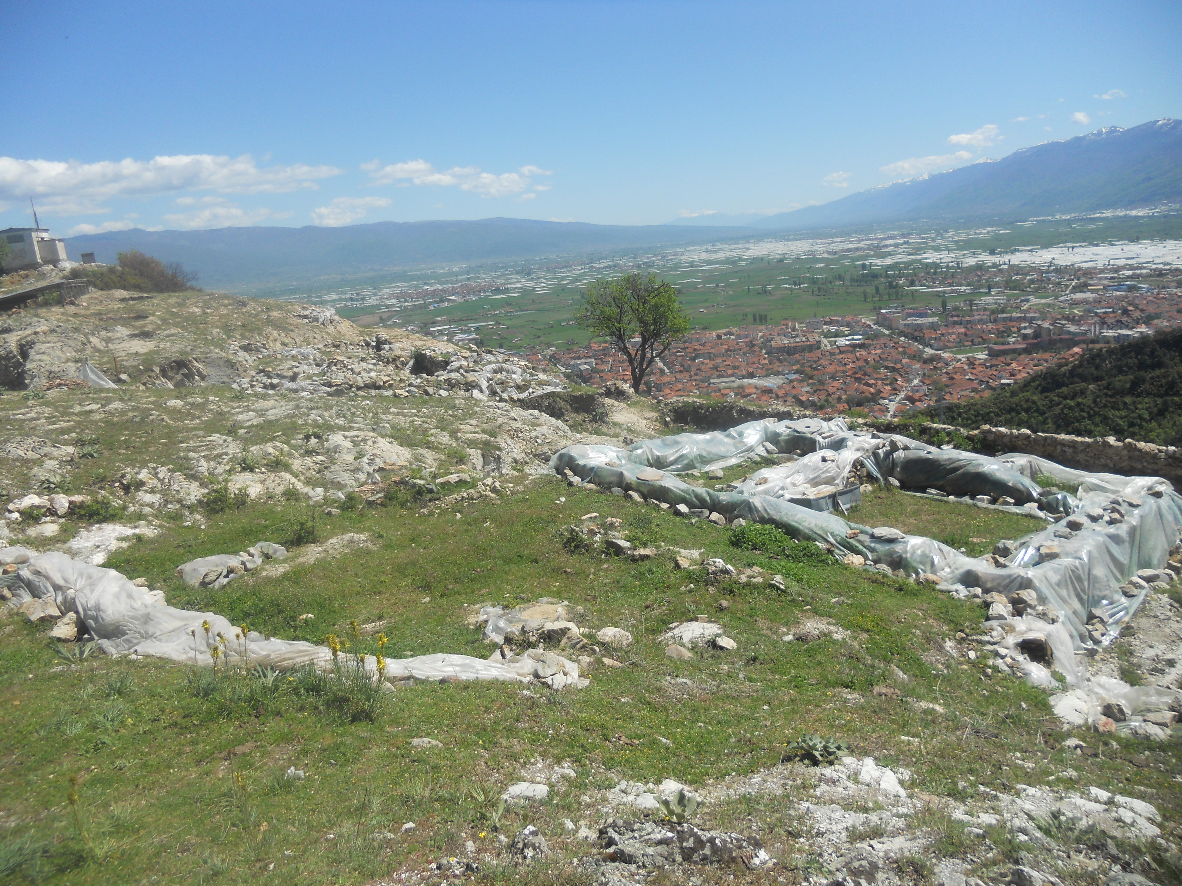 Czar's Tower in Strumica, Macedonia